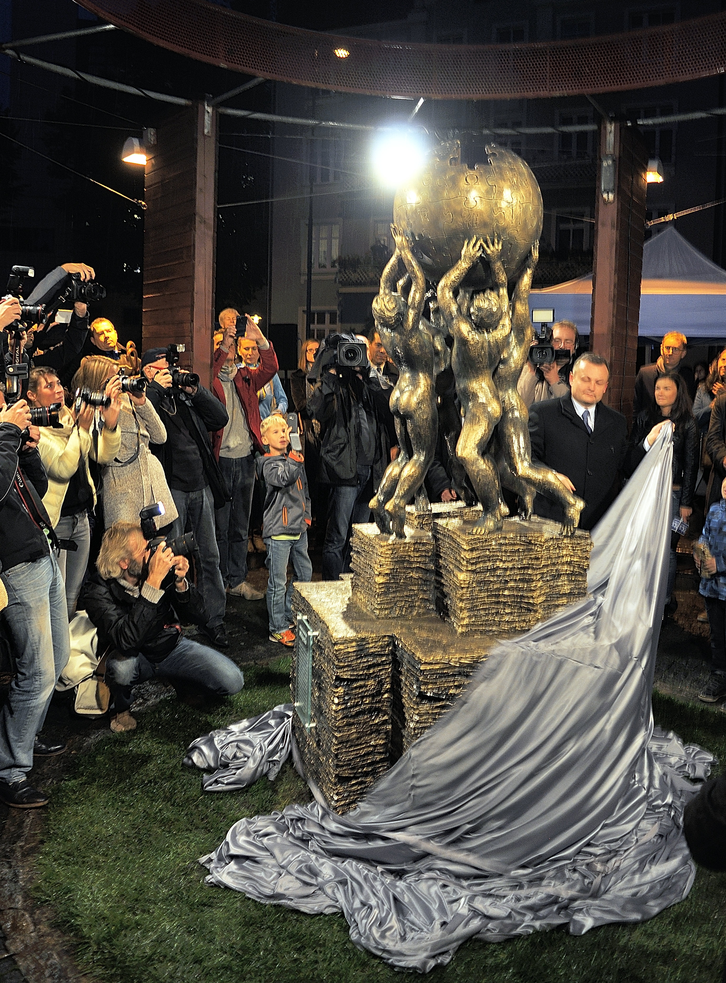 Celebration of the Wikipedia monument in Słubice. Unveiling.